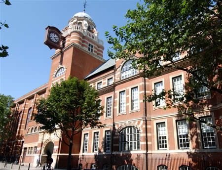 City University's College Building on St John Street in London's Clerkenwell.